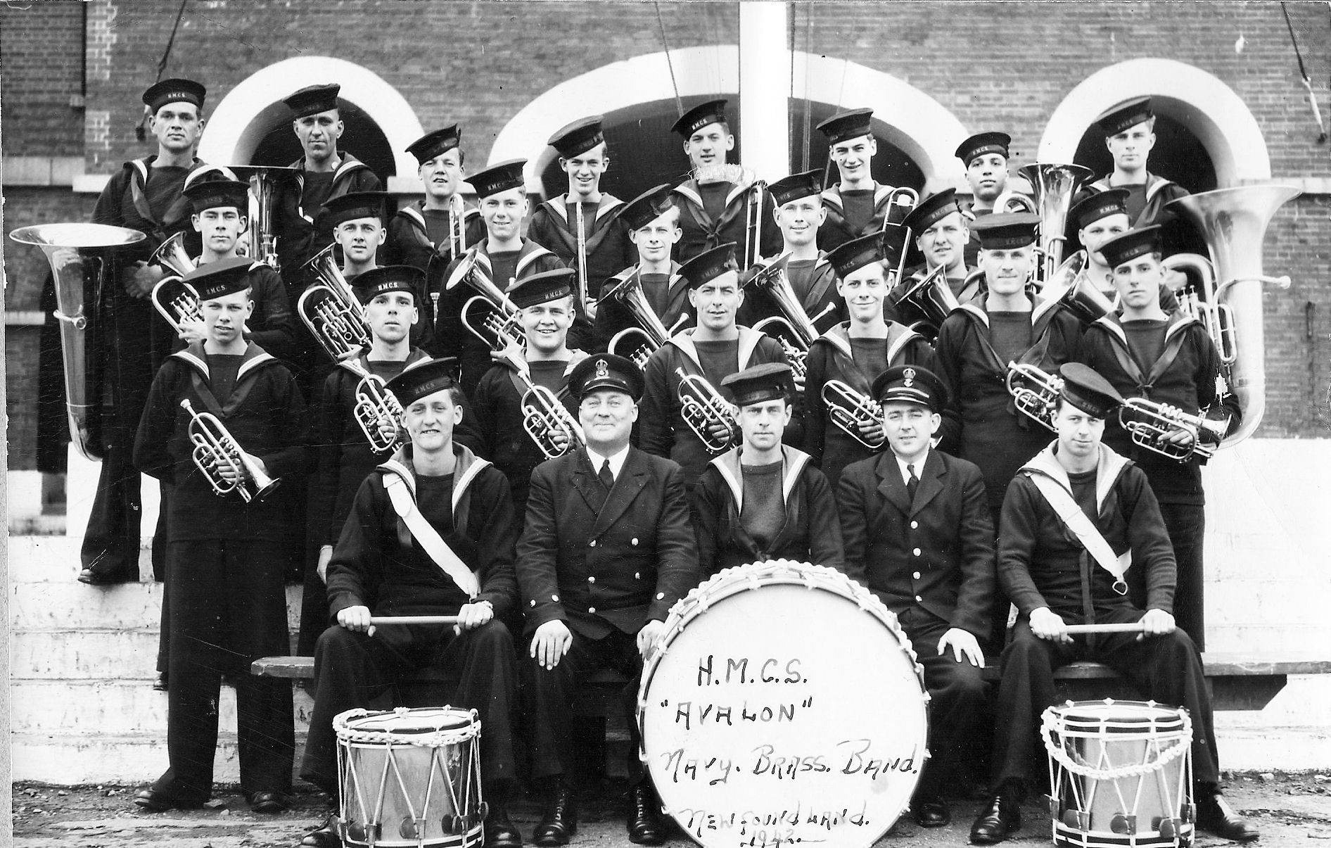 Canada. H.M.C.S. Avalon Navy Brass Band, Newfoundland, 1942